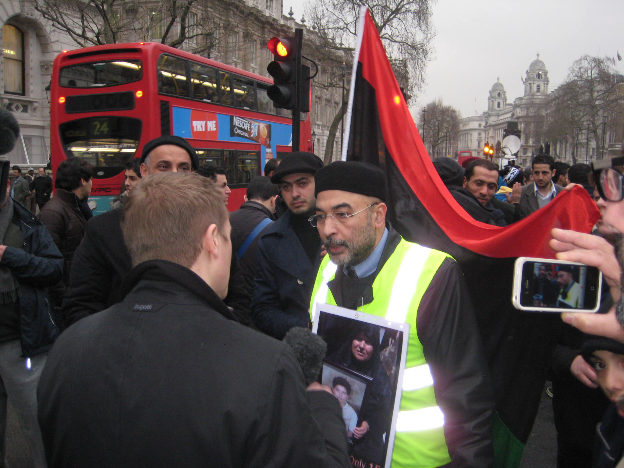 Hisham Ben Ghalbon talking to the media during a demonstration in front of 10 Downing St in March 2011